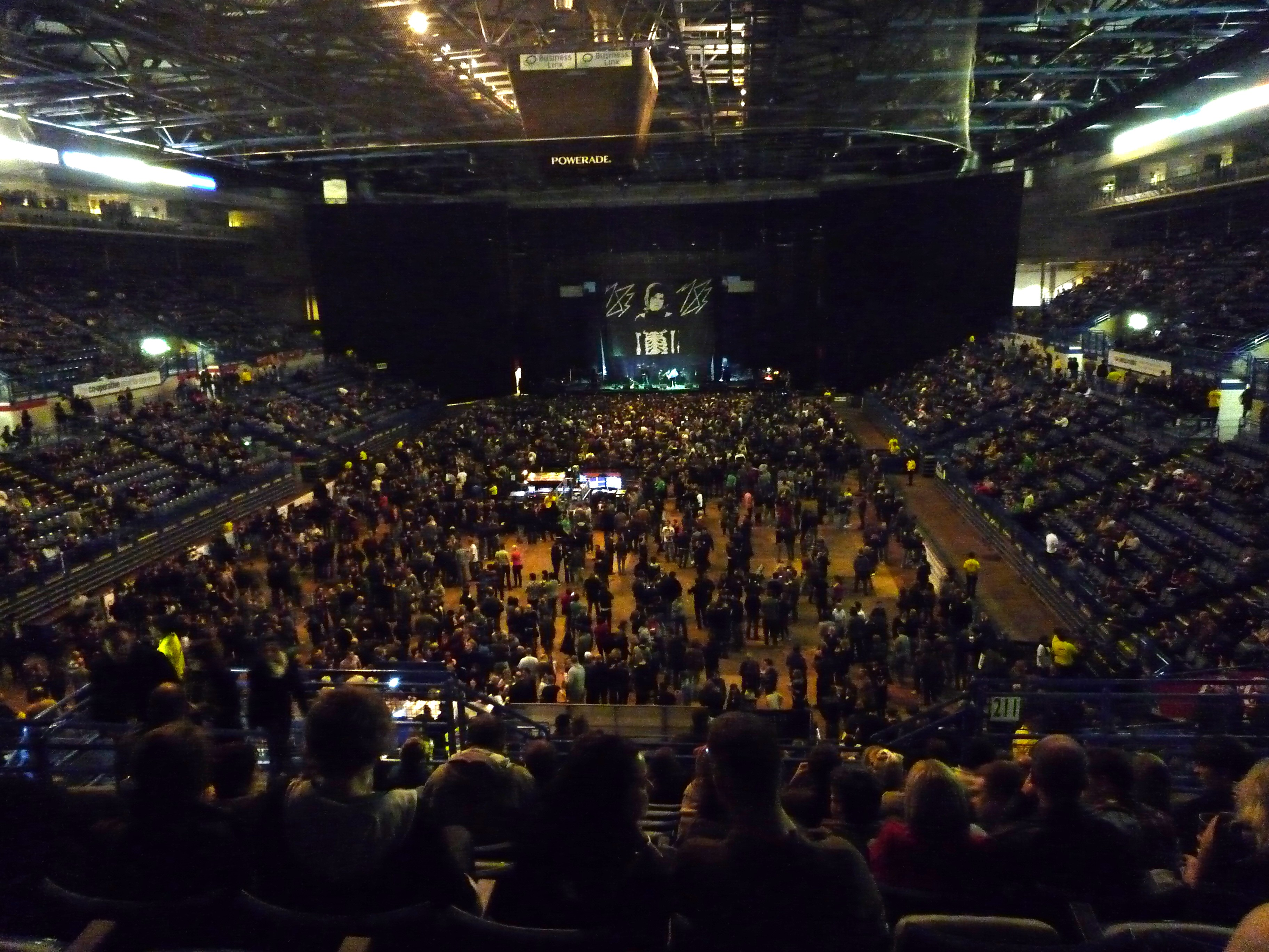 Filling to the rafters